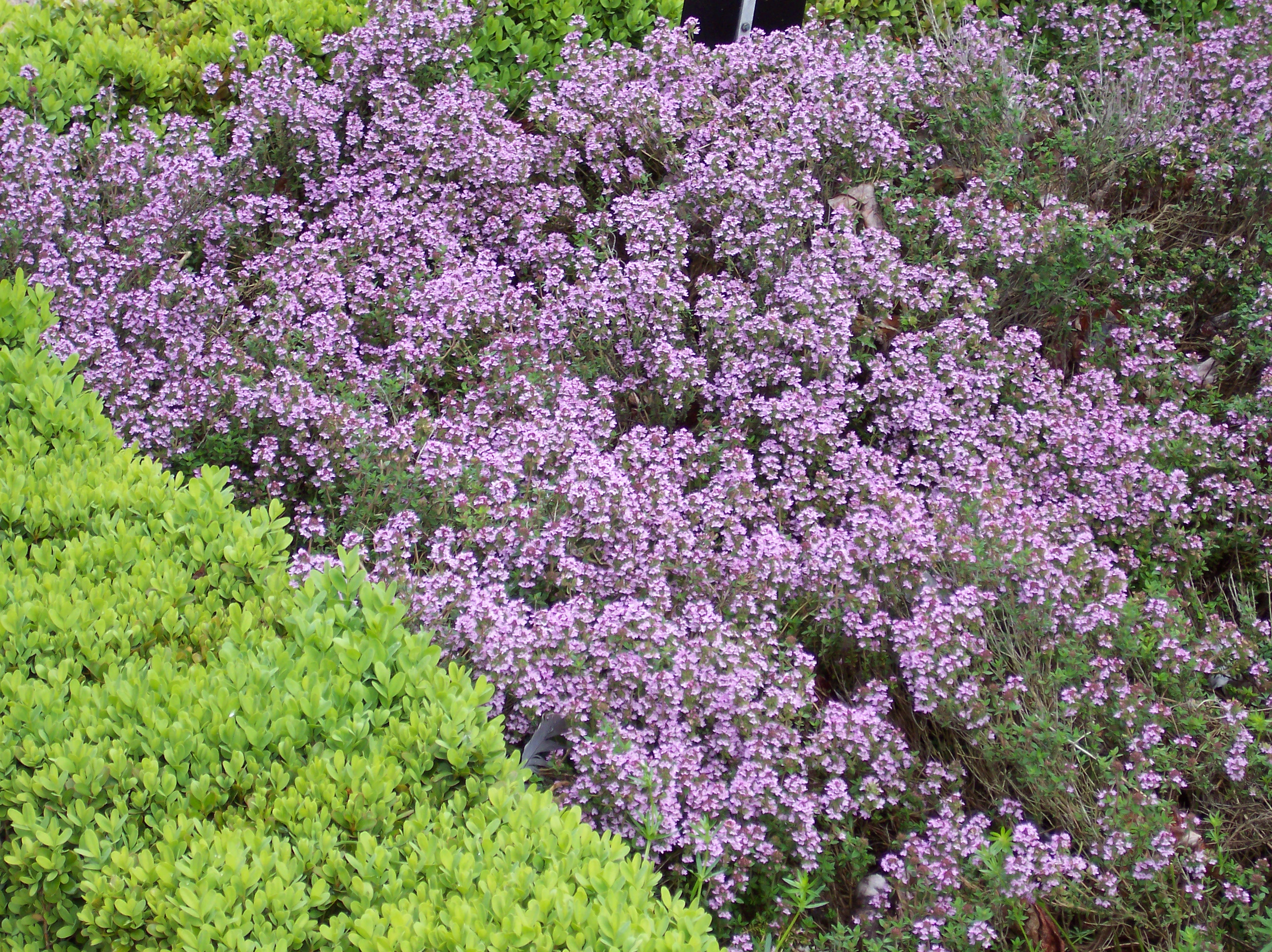 Thymus 'Porlock', Royal Botanical Garden of Madrid. (A cultivar bred at Porlock in Sommerset by the gardener Norman Hadden (1889-1971) who was awarded the RHS Victoria Medal of Honnor in 1962 or 1964).